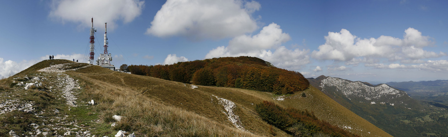 Nanos